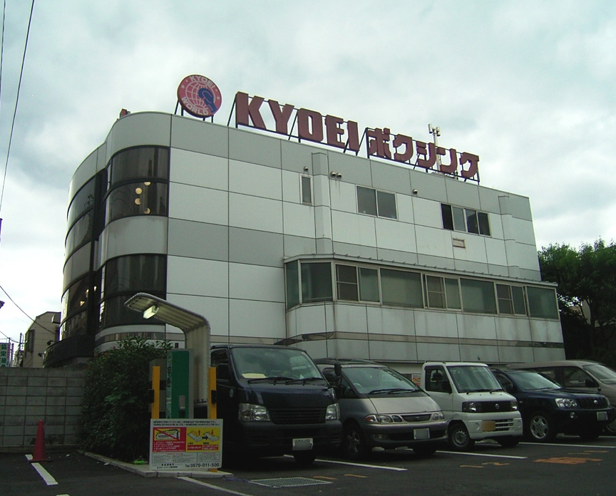 Kyoei_boxing_gym in Tokyo, Japan